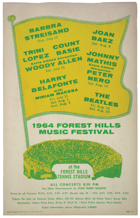 Poster promoting several concerts held in the summer of 1964 at Forest Hills Tennis Stadium, Queens, New York. Concerts headliners include Barbra Streisand, Count Basie, Woody Allen, Joan Baez, Johnny Mathis, Harry Belafonte, and The Beatles. The poster was printed by Murray Posters of NYC and measures 14 by 22 inches (360 mm × 560 mm).